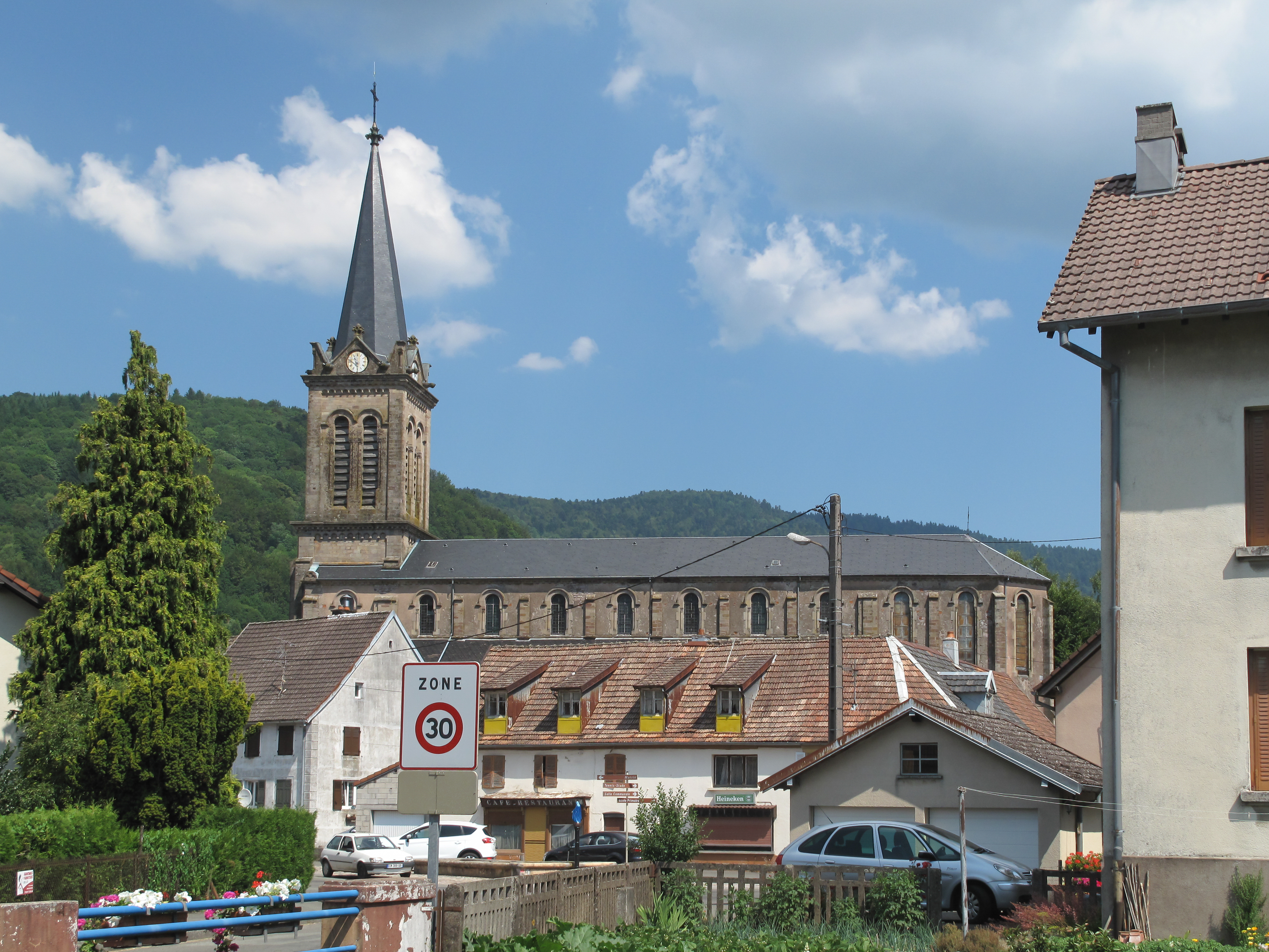 Lepuix, church (église de la Nativité-de-Notre-Dame) in the street